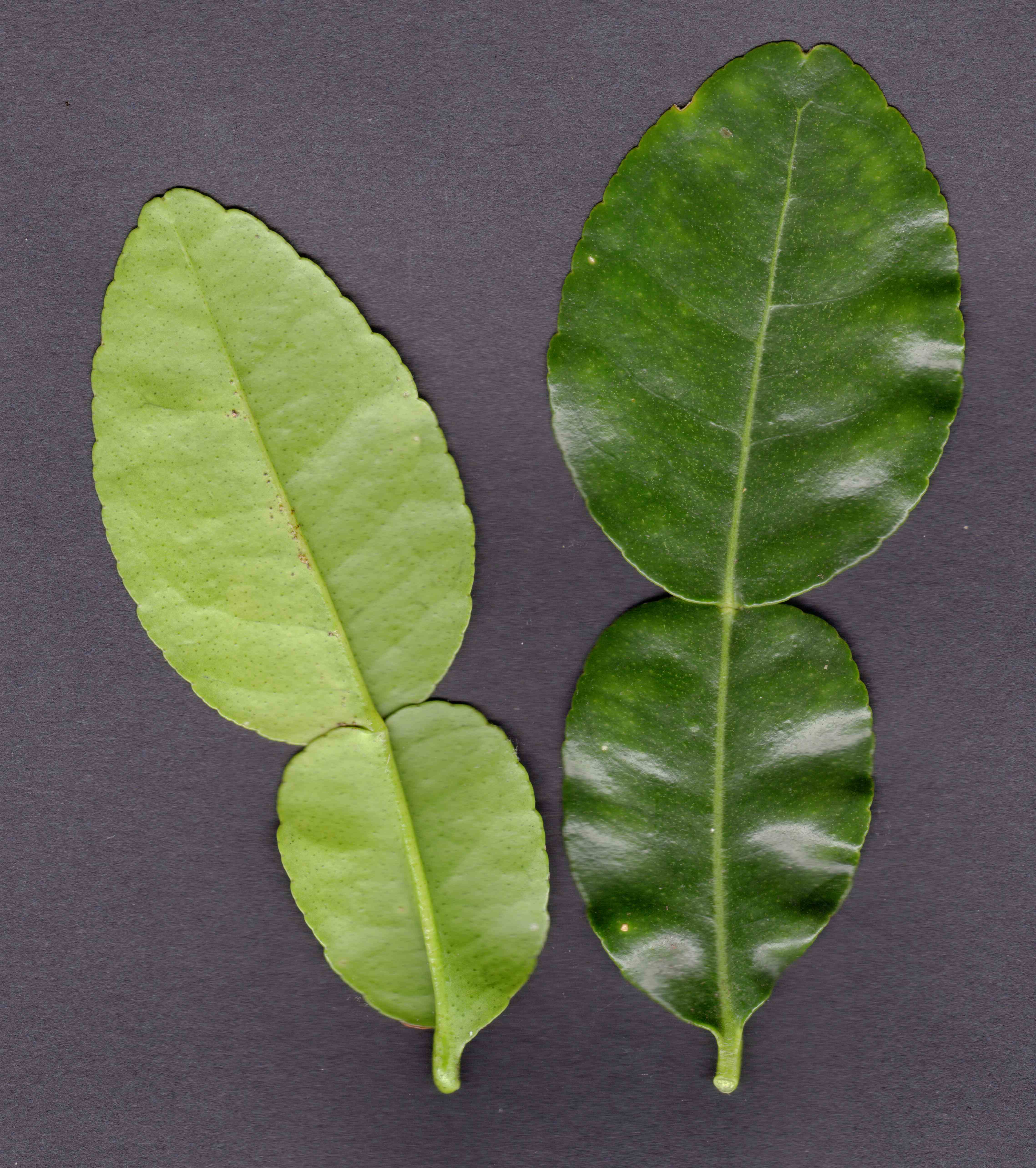 Citrus hystrix leaves (scanned)